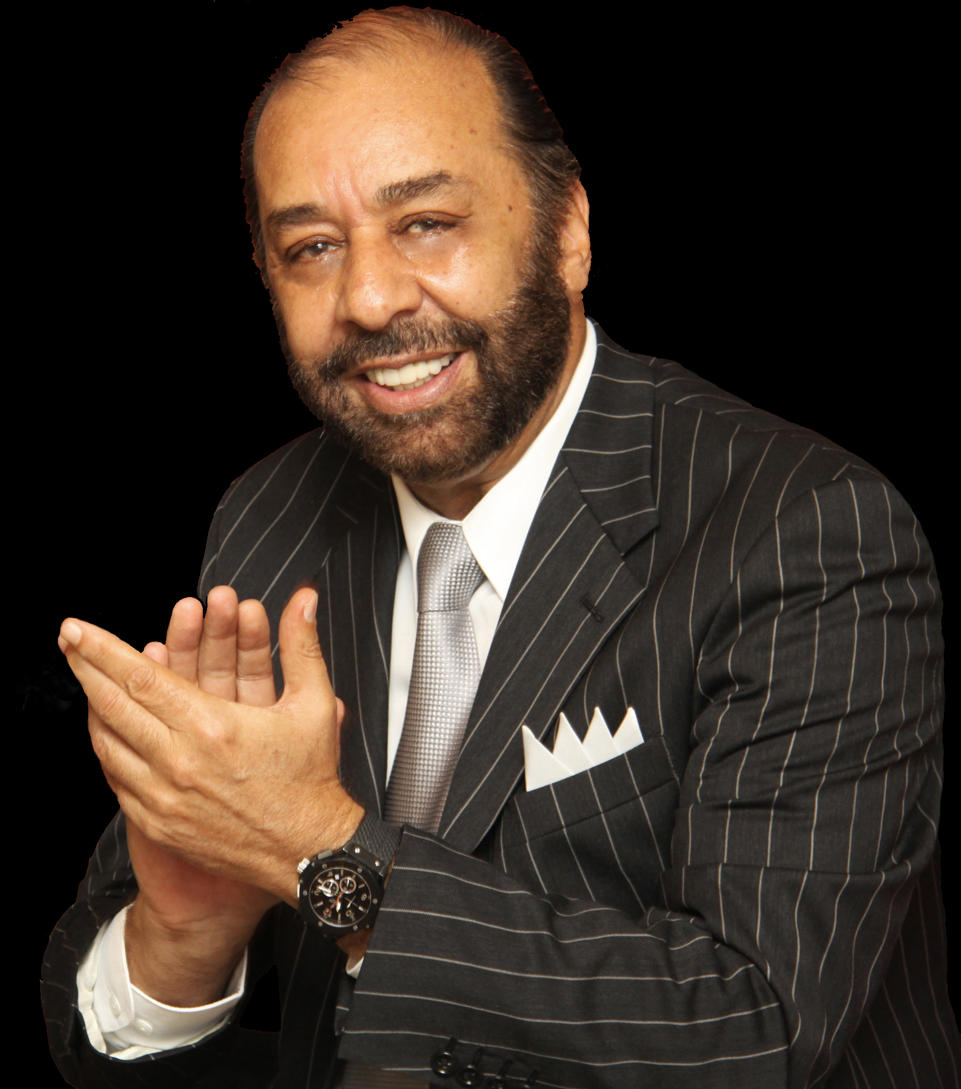 Fomer Governor of San Luis Potosi, Teofilo Torres Corzo